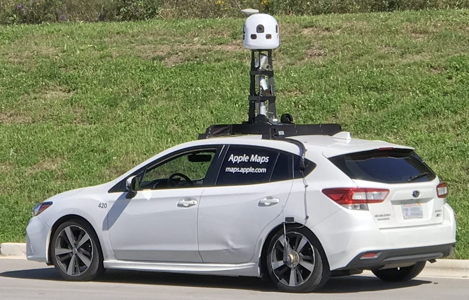 A imagery and mapping car for the Apple Maps service, a Subaru Impreza, in a parking lot in Sheboygan, Wisconsin in September 2019.